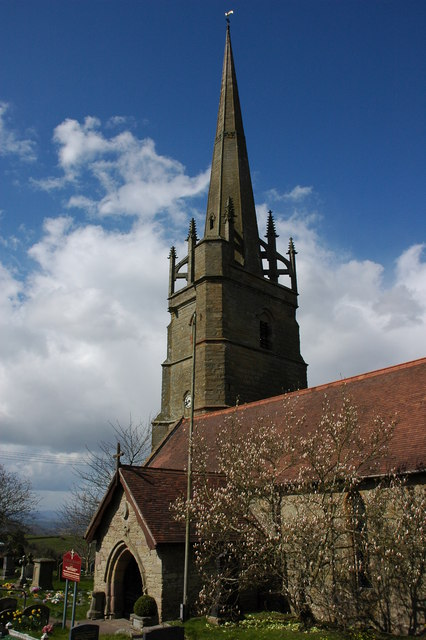 Ruardean Church Ruardean church is dedicated to St John the Baptist. The village of Ruardean is situated on high ground on the northern edge of the Forest of Dean and the church spire is prominent when viewed from parts of the Wye Valley below.